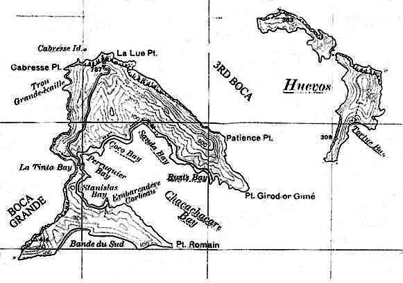 map of Chacachacare Island, Bocas Island, Trinidad and Tobago, Caribbean